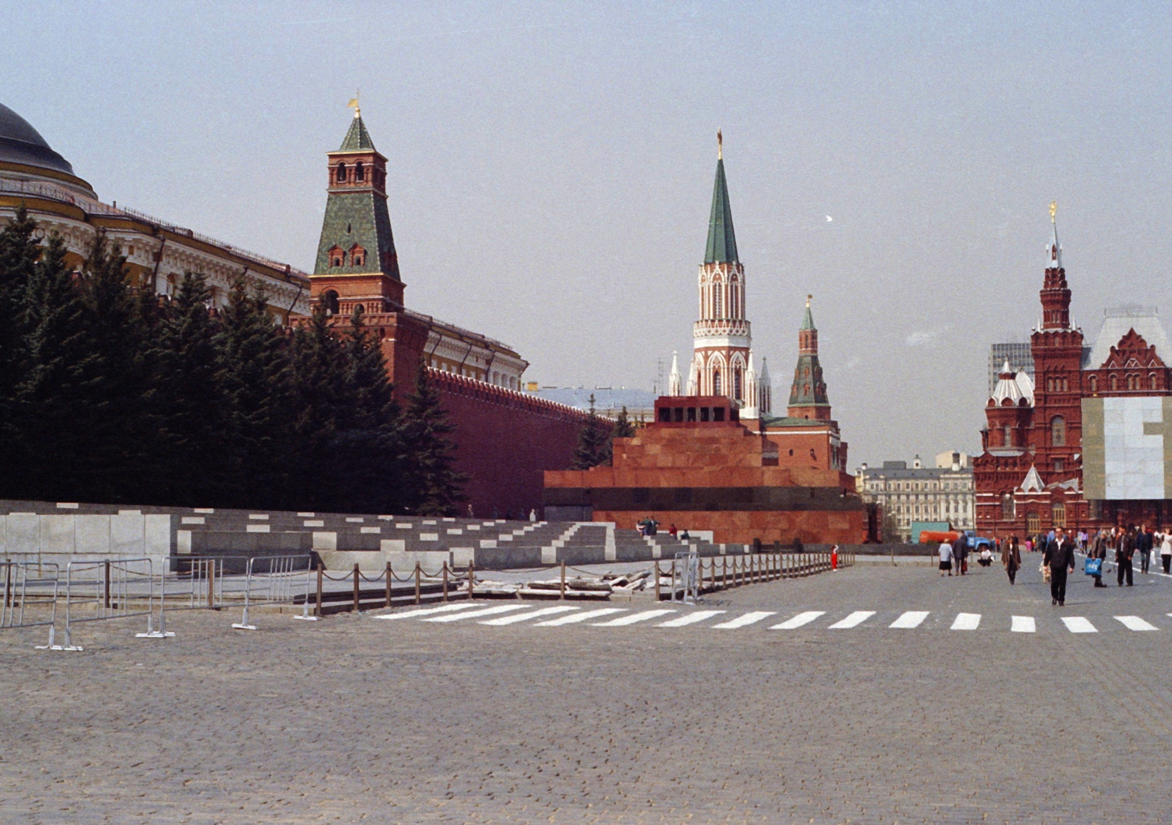 Moscow Red Square in 1999.